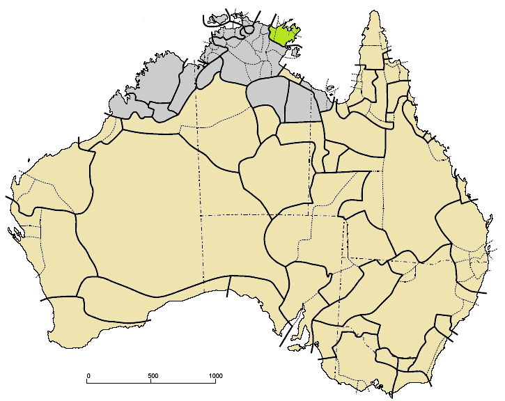 Yolŋu languages (green) among other Pama–Nyungan (tan)